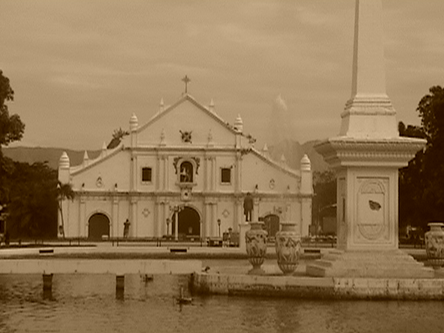 St Pauls Cathedral in Vigan City (in sepia effect)